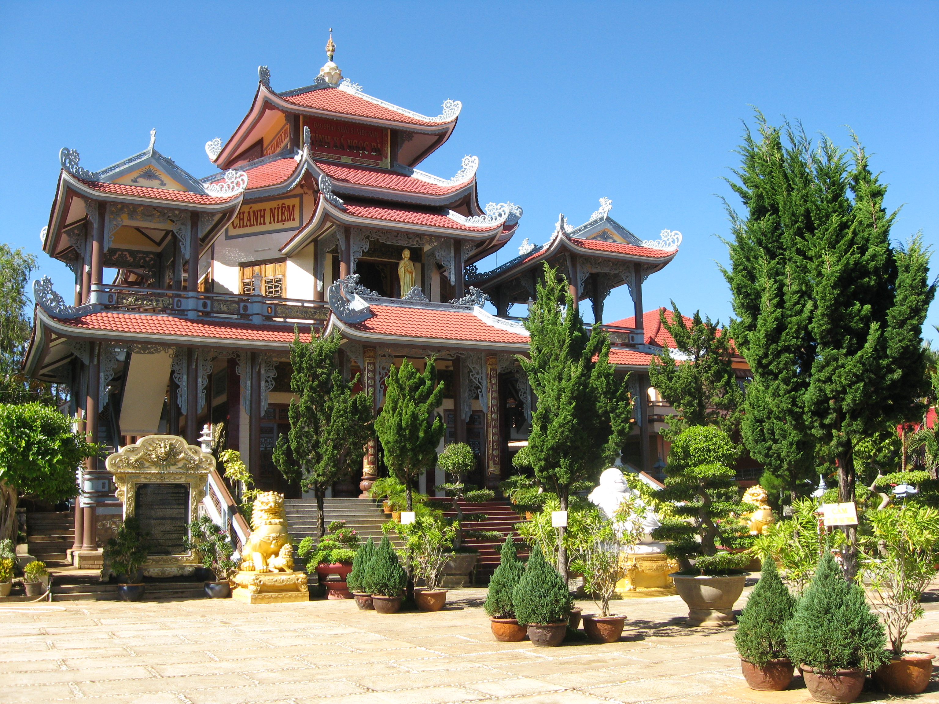 Ngoc Da Vihara